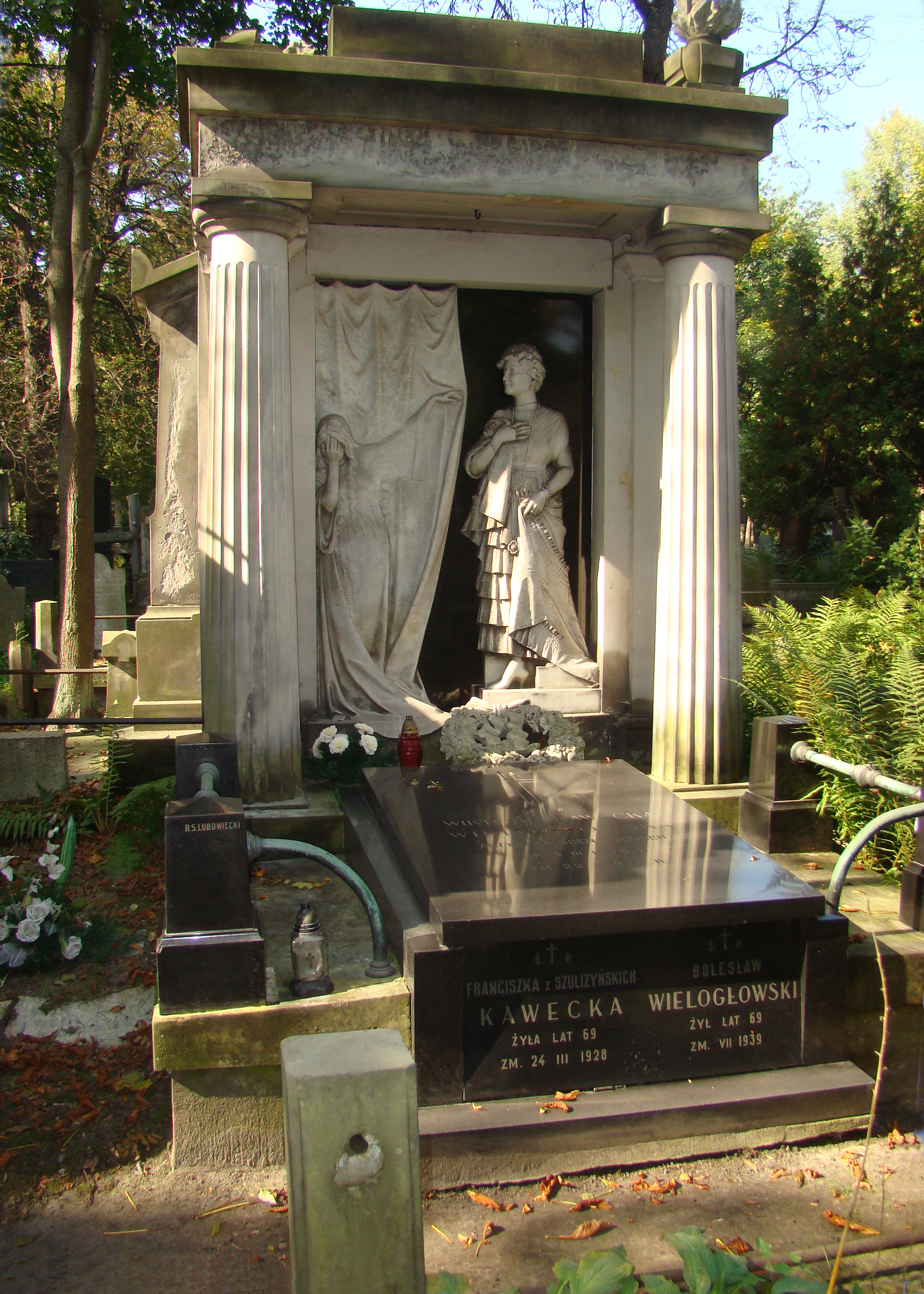 Wiktoria Kawecka, Polish operette singer